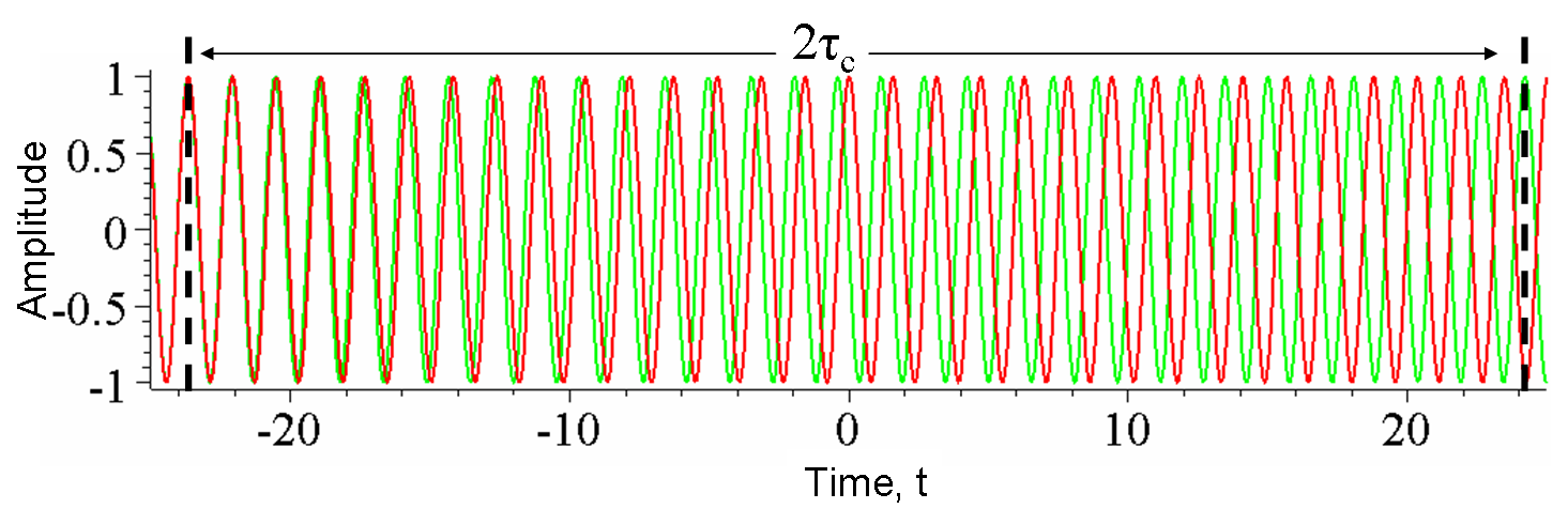 A wave with phase drift and a copy of itself delay by two coherence times.